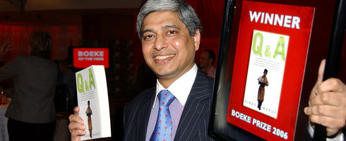 Vikas Swarup